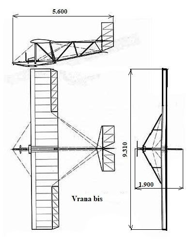 Glider Wrona-bis Српски (ћирилица): Poljska jedrilica Wrona-bis (Vrana-bis)